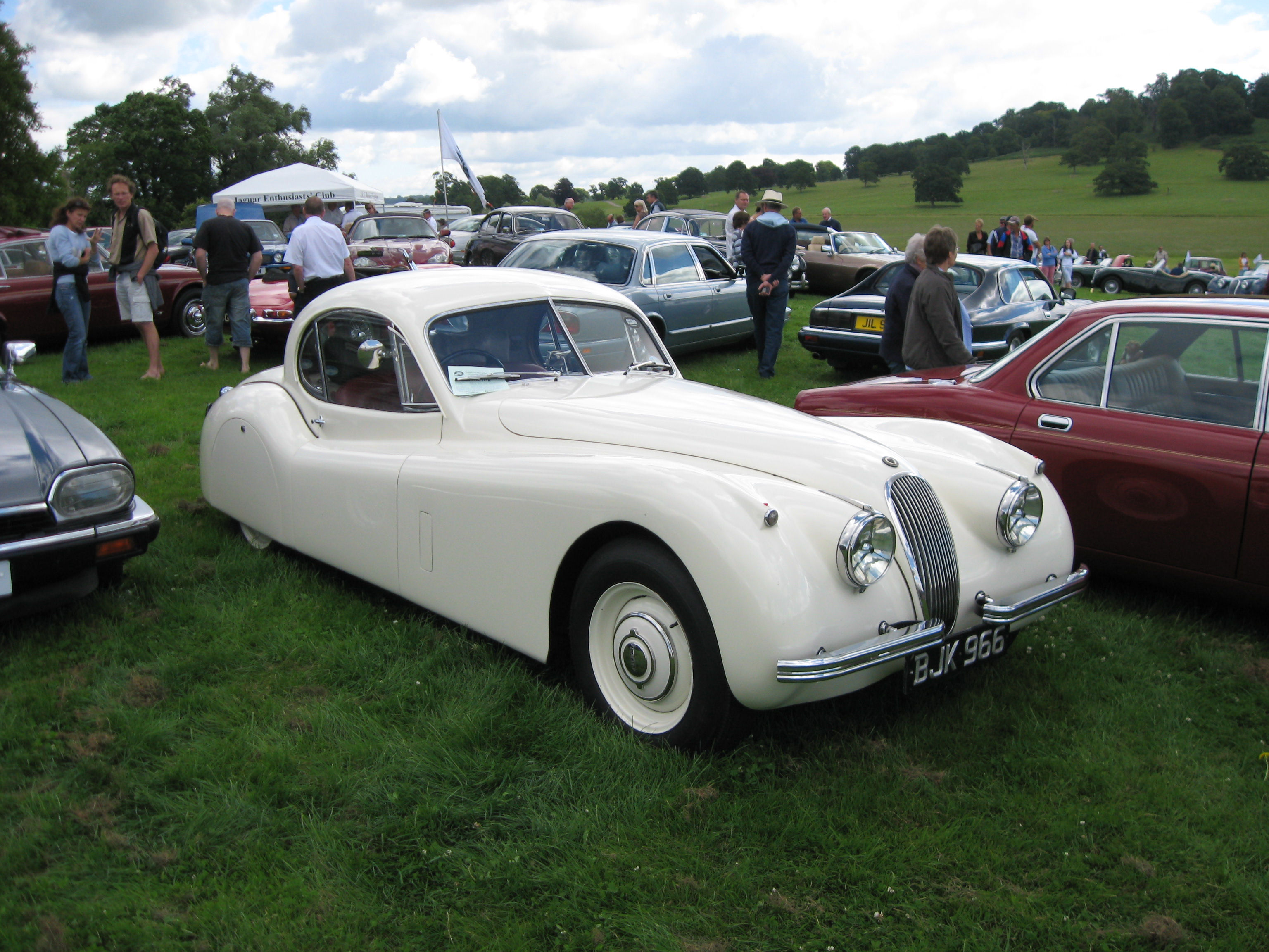 Nice white early 50s Jag, spotted at the Sherborne Castle Classic Car Show in July, 2008.